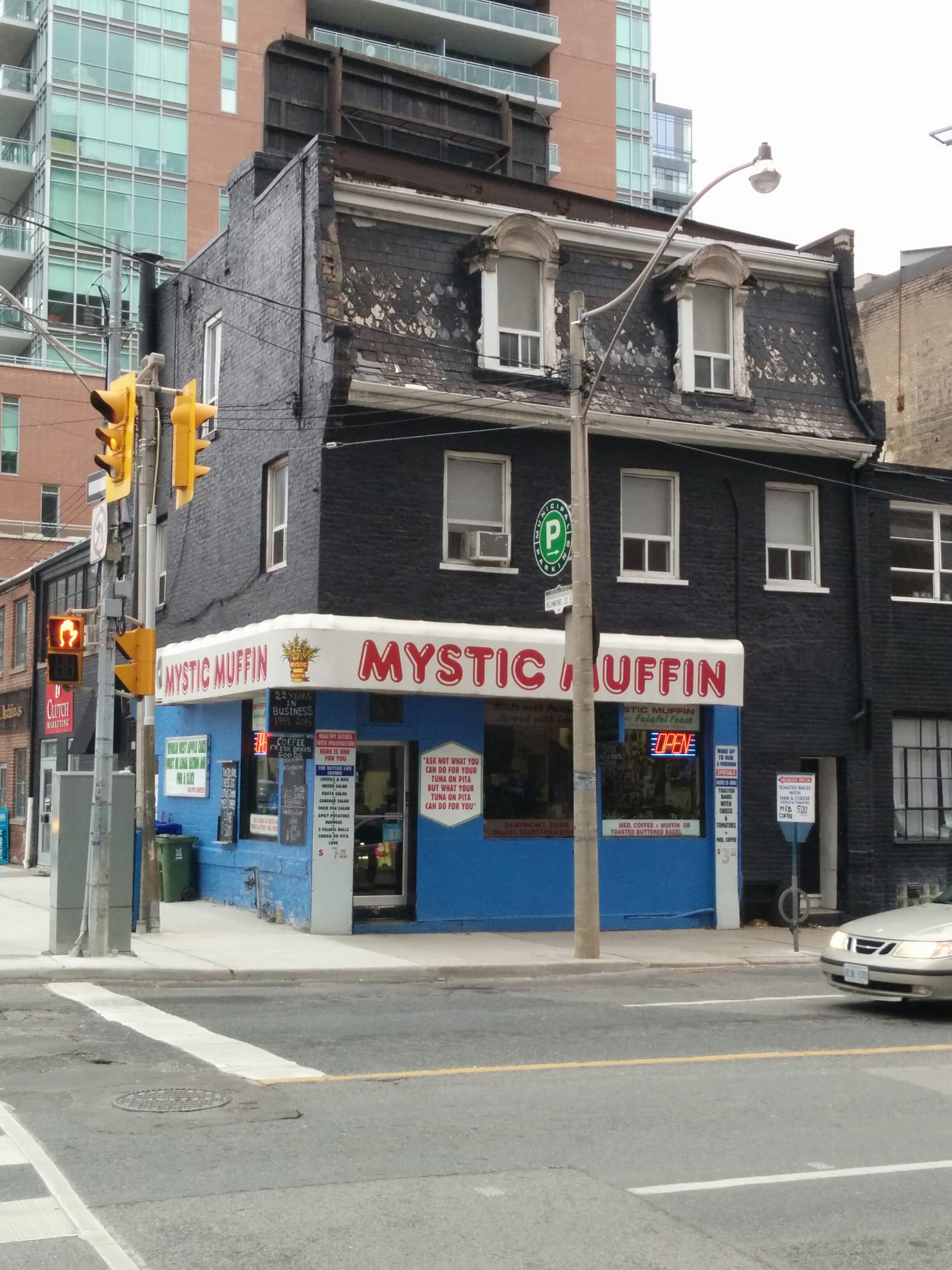 The 1832 home of the first Bishop of Upper Canada, Alexander Macdonnell. Now a restaurant.